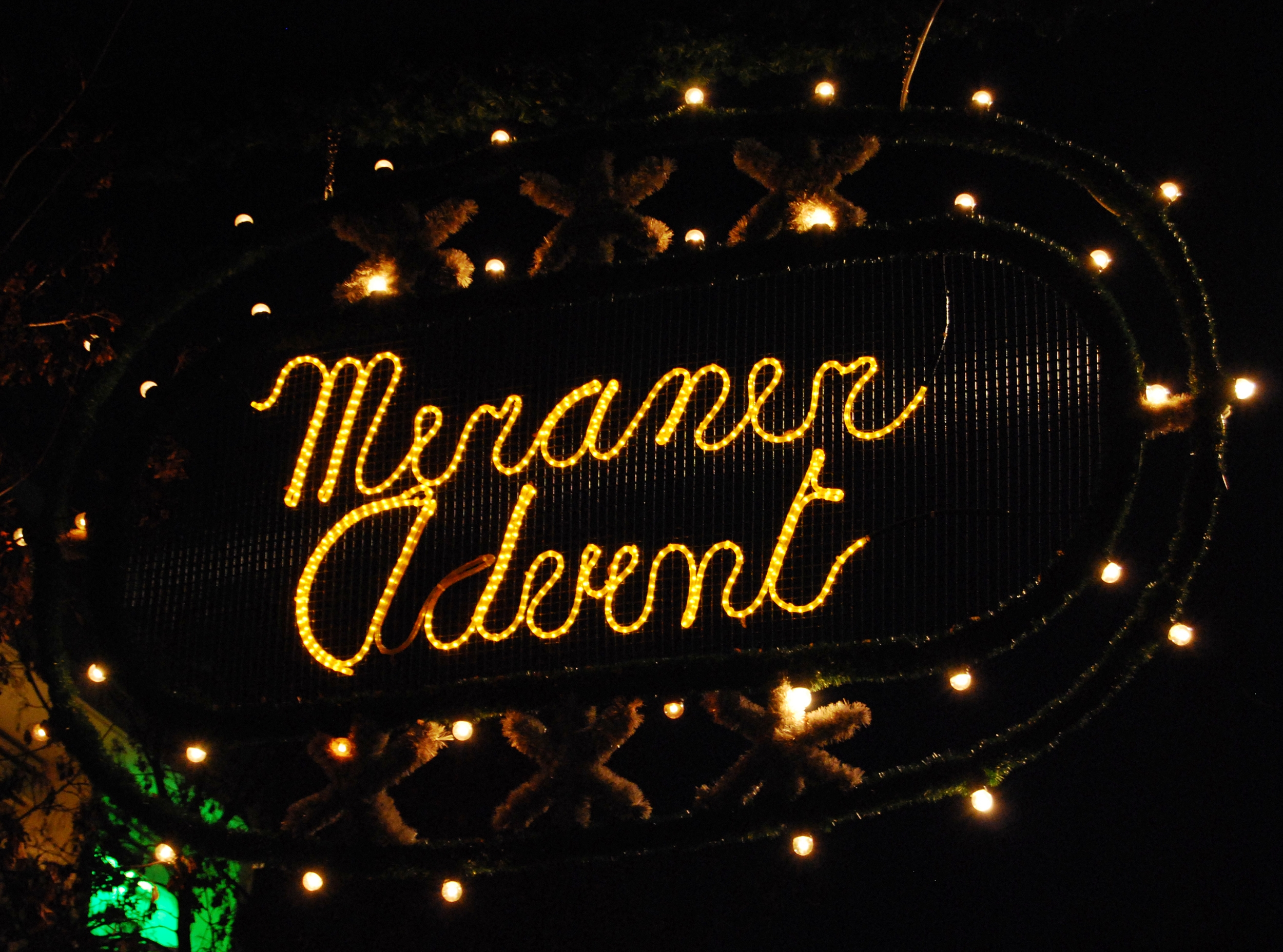 Neon writing at the entrance of Christmas market Meraner Advent, December 2011.